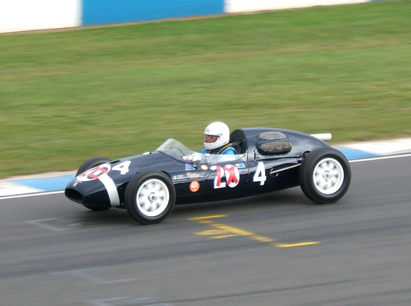 Richard Longes's ex-Rob Walker Racing Cooper T43, accelerating out of the chicane and onto the Wheatcroft Straight, during the VSCC SeeRed race meeting, Donington Park, September 2007.